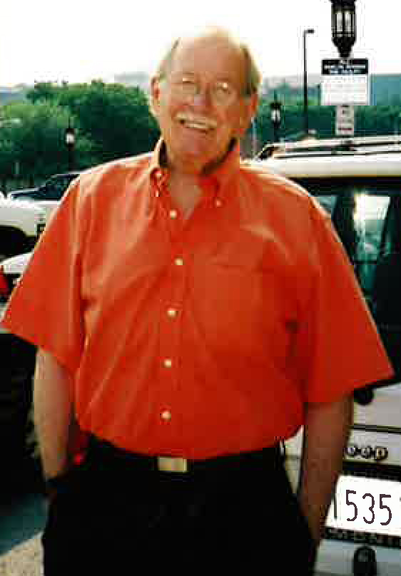 Photograph of Bill Steinmetz, July 2, 2004. Baltimore, Maryland.